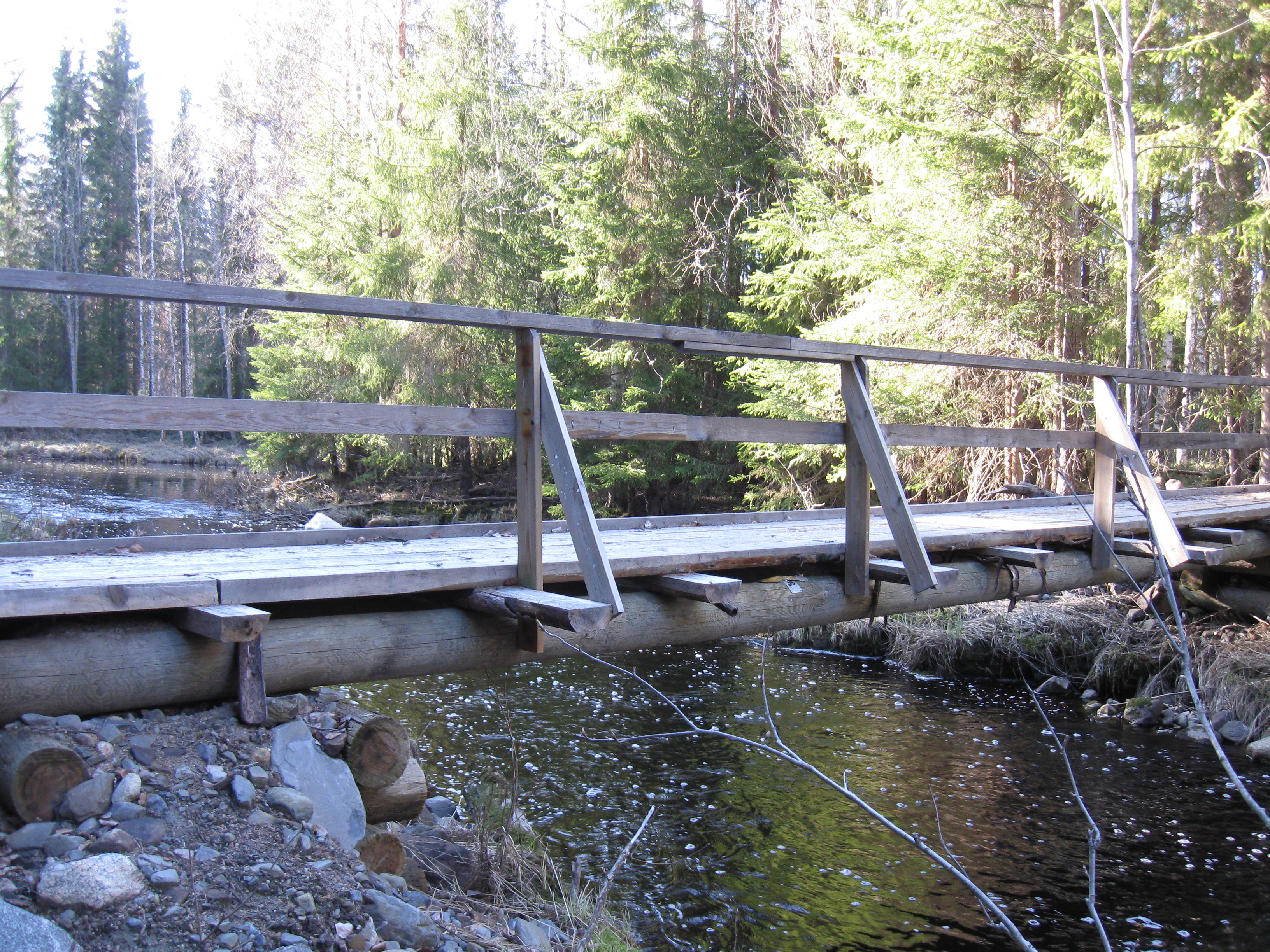 A wooden walking bridge (a log bridge) across the Koivujoki river in Ylikiiminki, Oulu, Finland.